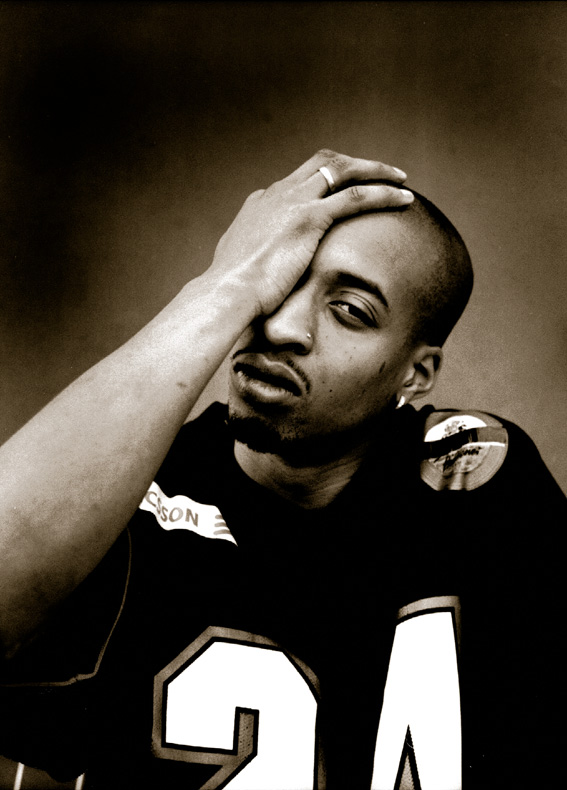 Berlin 1998